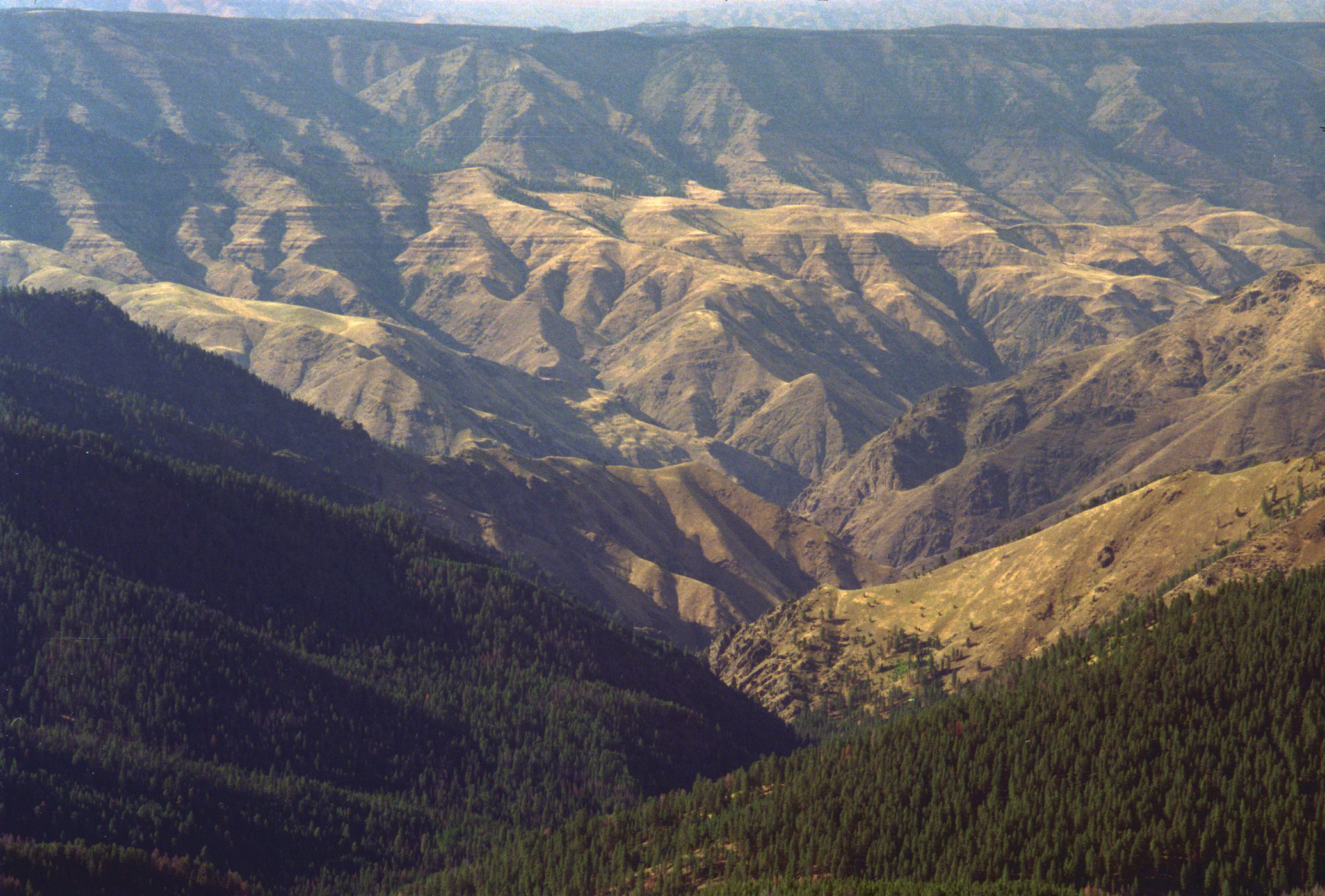 Hell's Canyon — from Heaven's Gate Overlook, near Riggins, Idaho. Hells Canyon Wilderness area, Nez Perce National Forest, western Idaho.